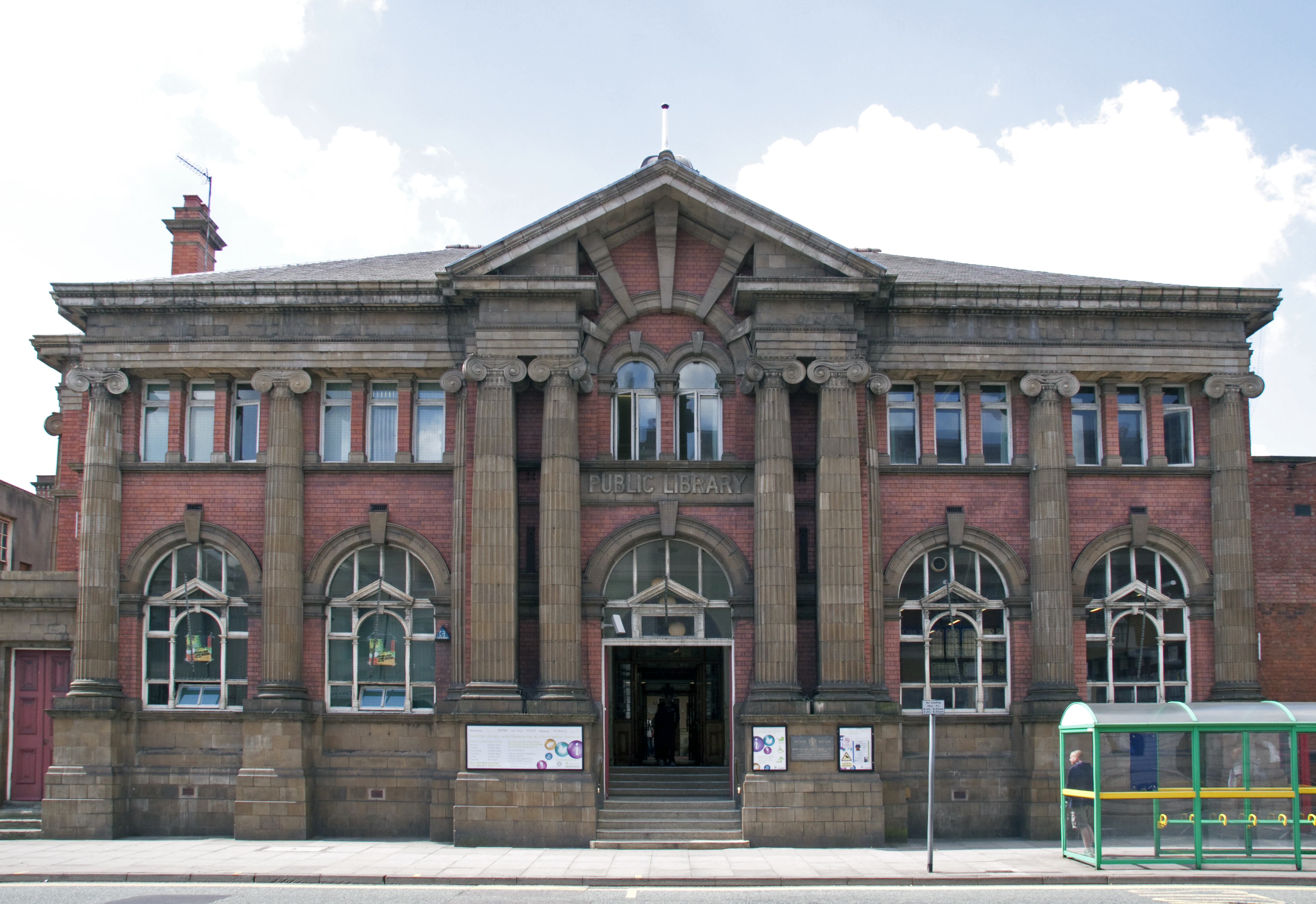 West Bromwich Library, West Midlands, England, UK.